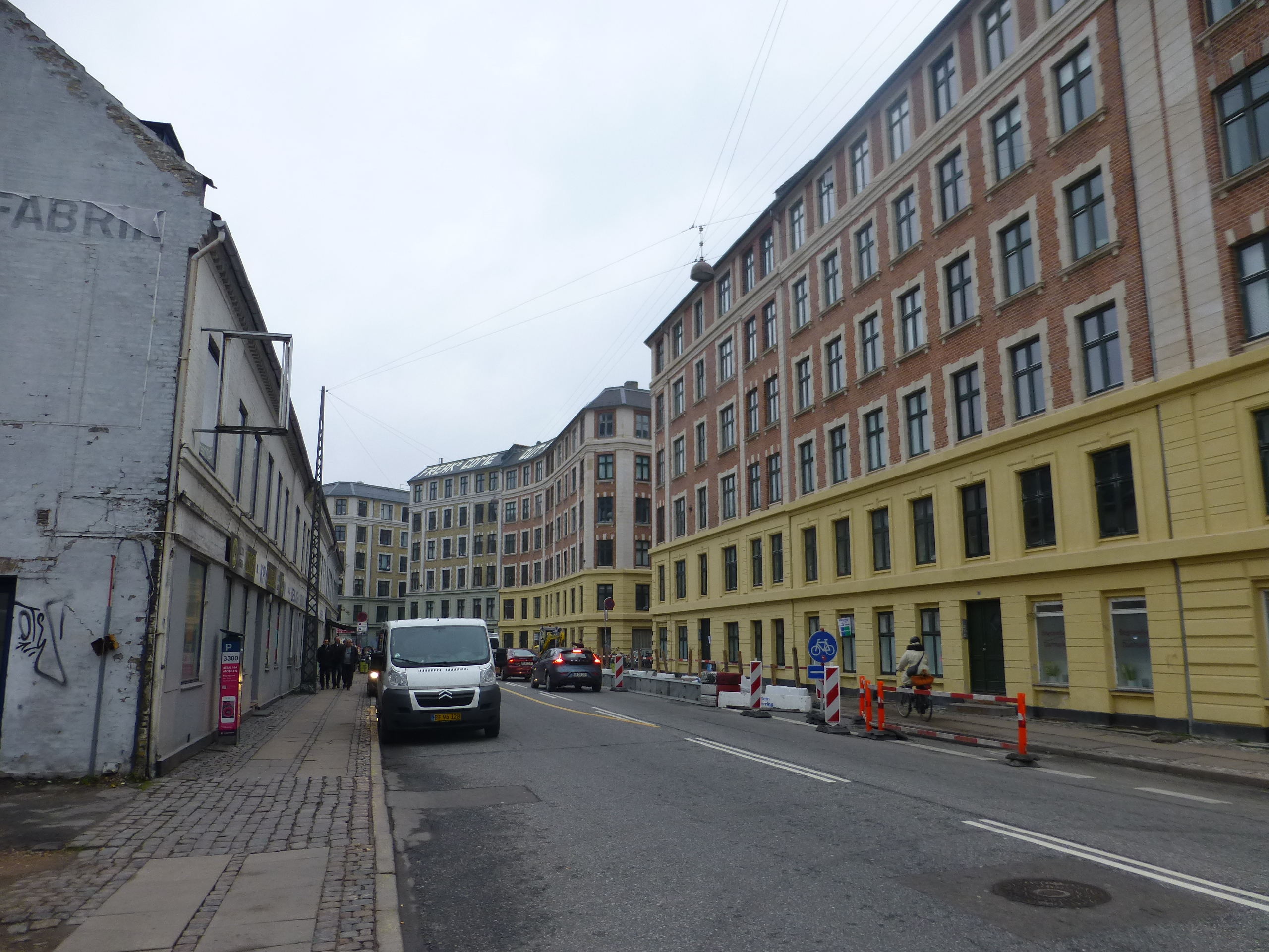 The street Enghavevej in Vesterbro in Copenhagen.